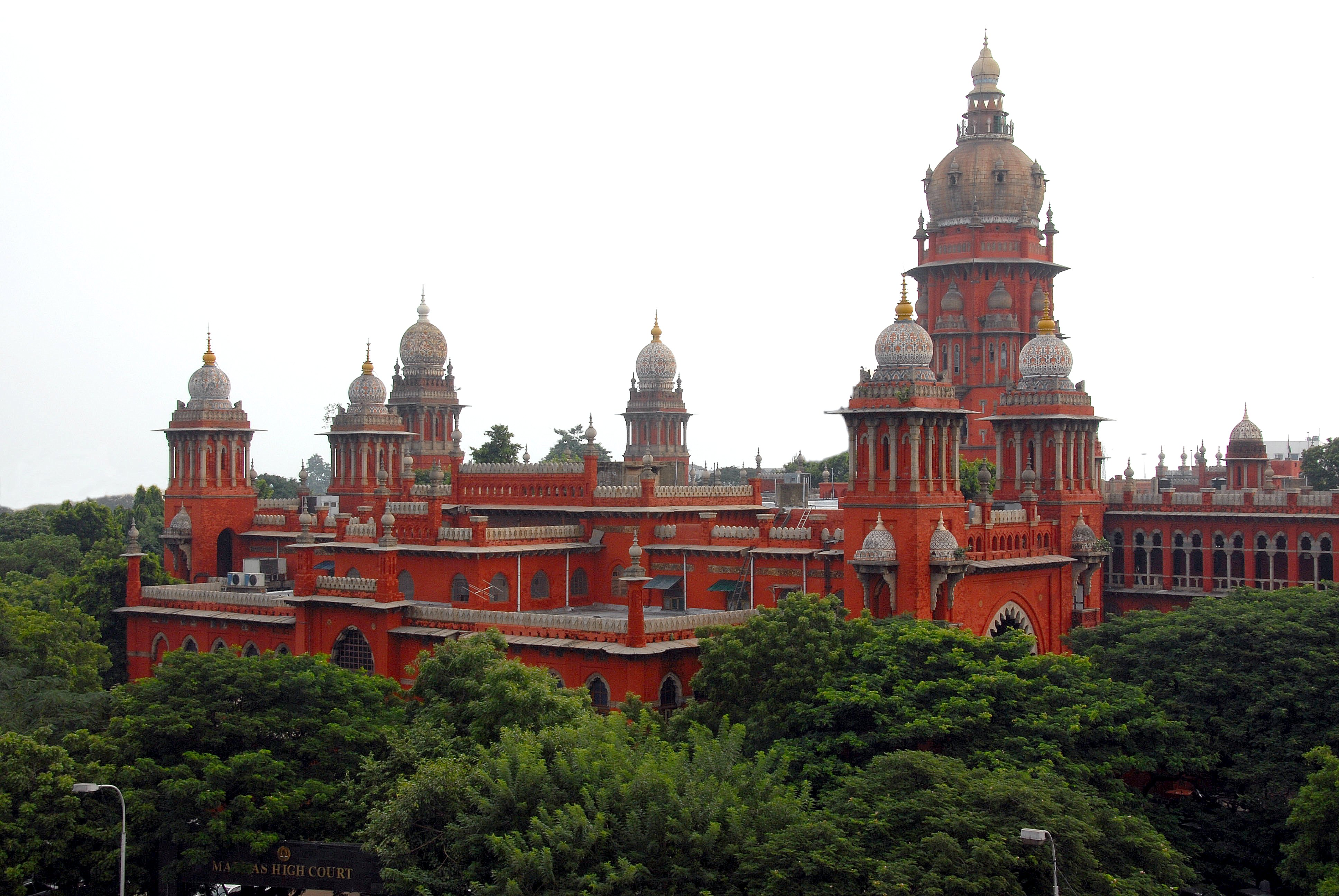 Chennai high court view taken by myself in a Nikon D 200 camera.